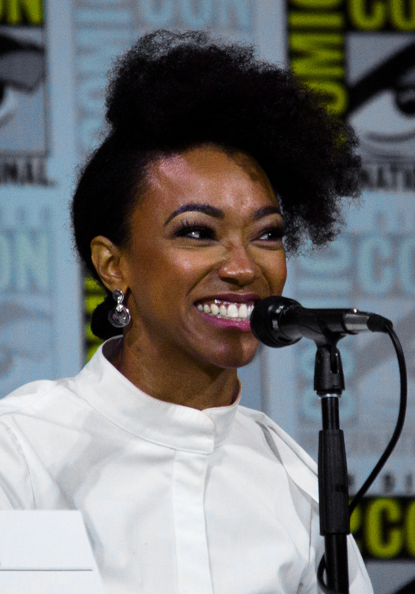 Cast & creators panel at SDCC 2017